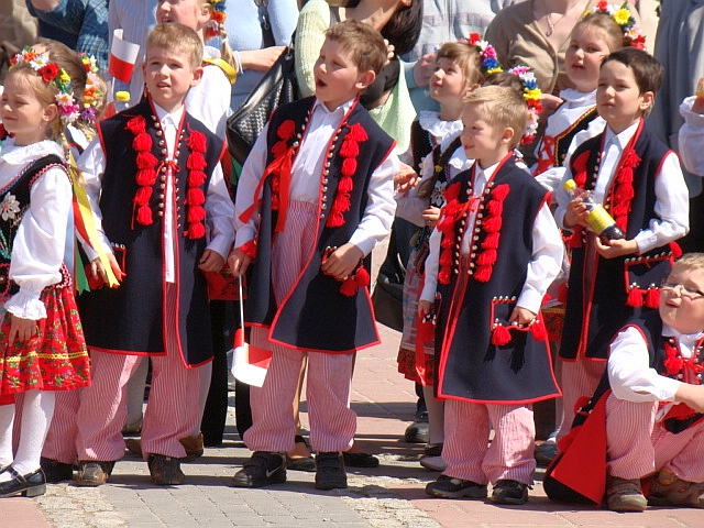 Flag Day in Sanok